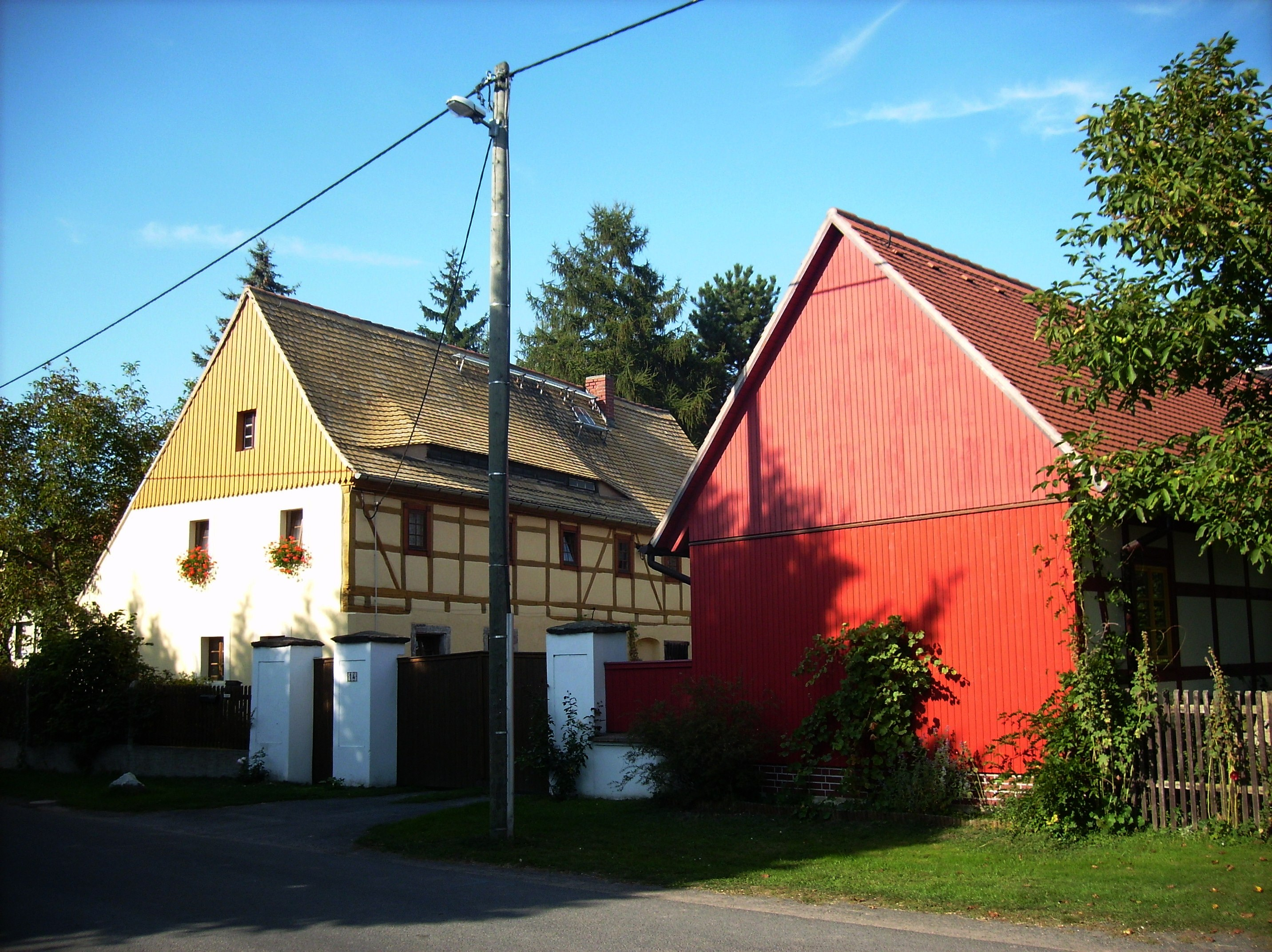 Farmstead in Bahren (Grimma, Leipzig district, Saxony)